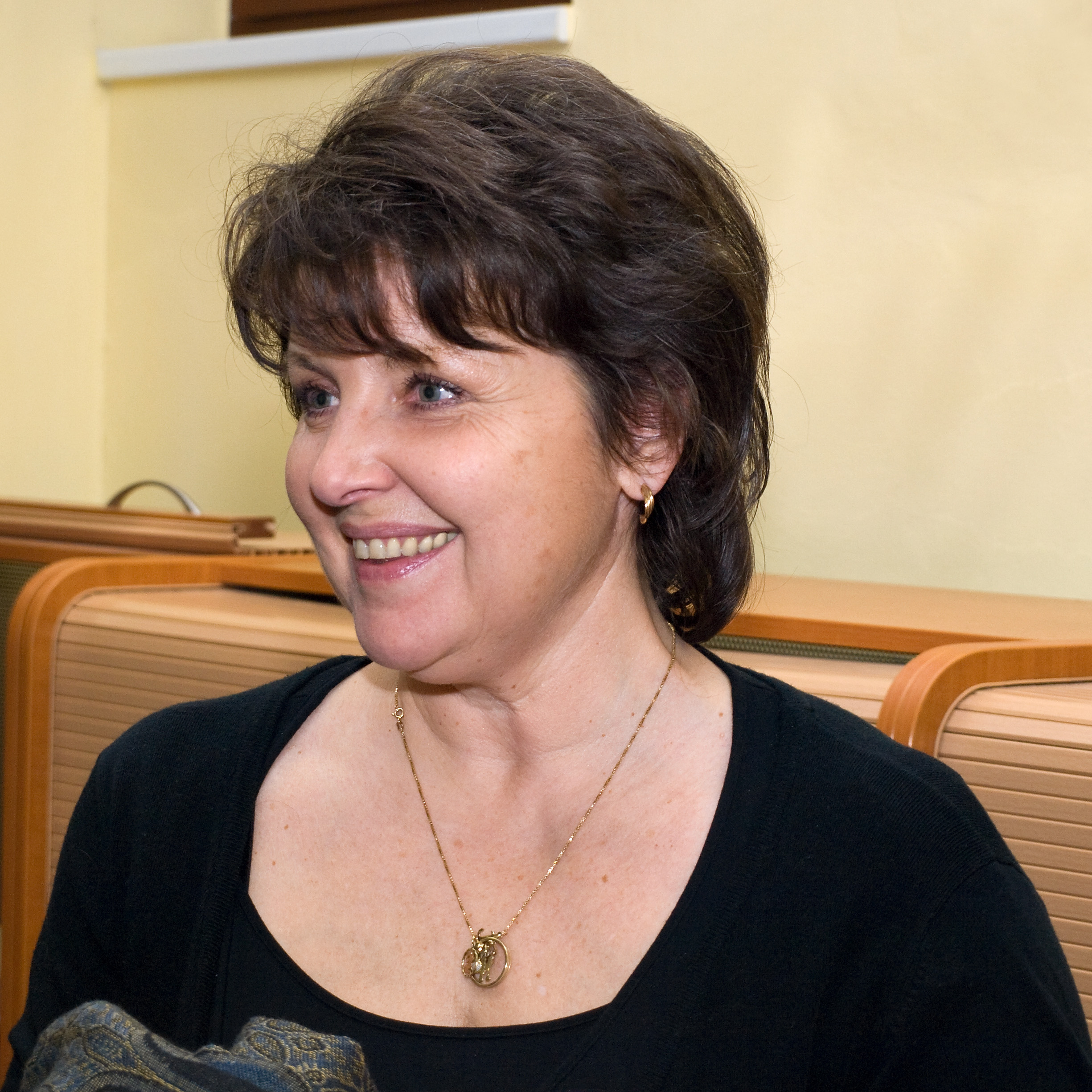 Czech actress Marta Hrachovinová